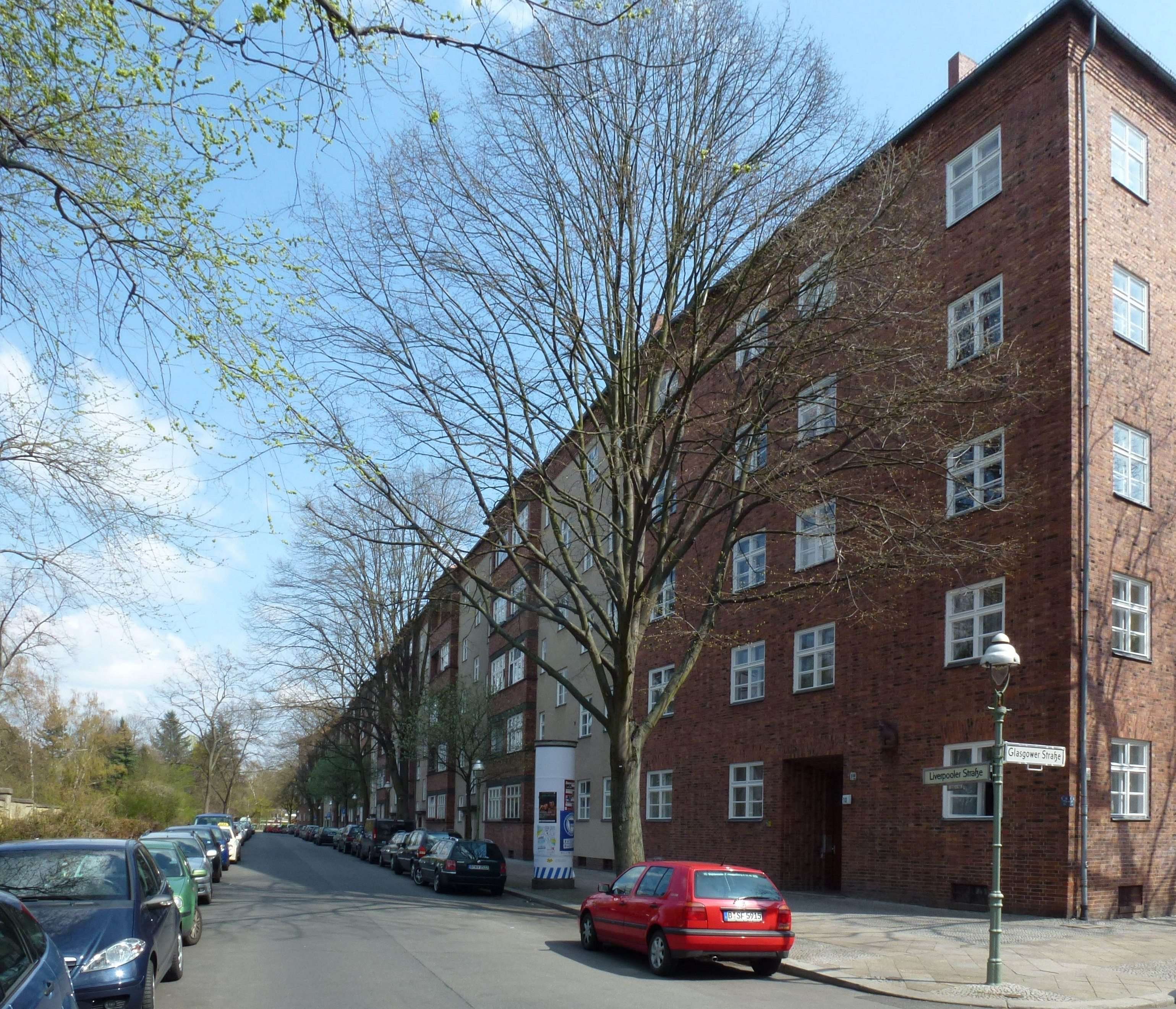 Berlin-Wedding Liverpooler Straße